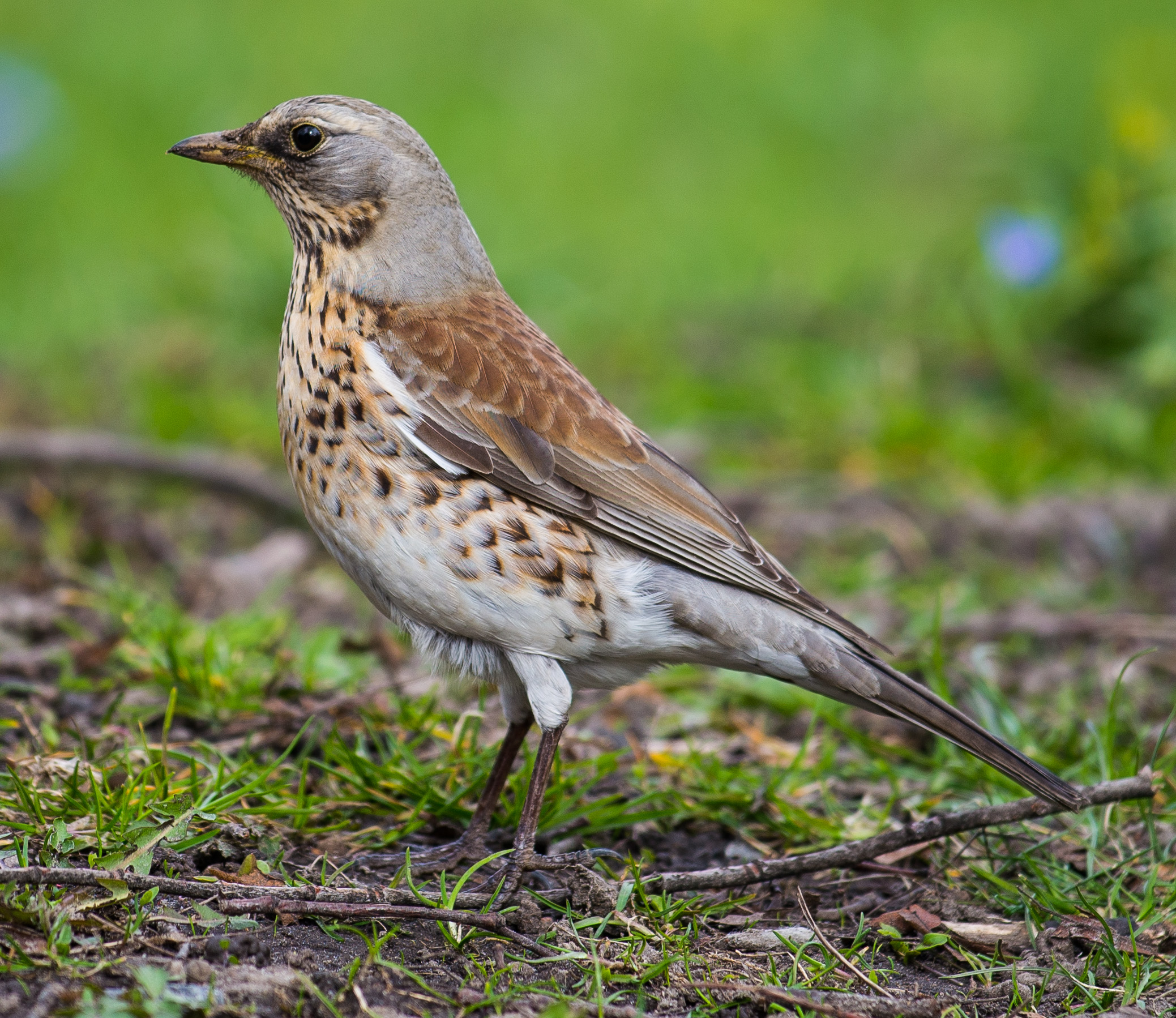 Fieldfare (Turdus pilaris) in Serafimerparken in Stockholm on april 8, 2015.